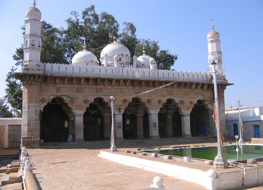 Jamia Masjid, Sira, Karnataka